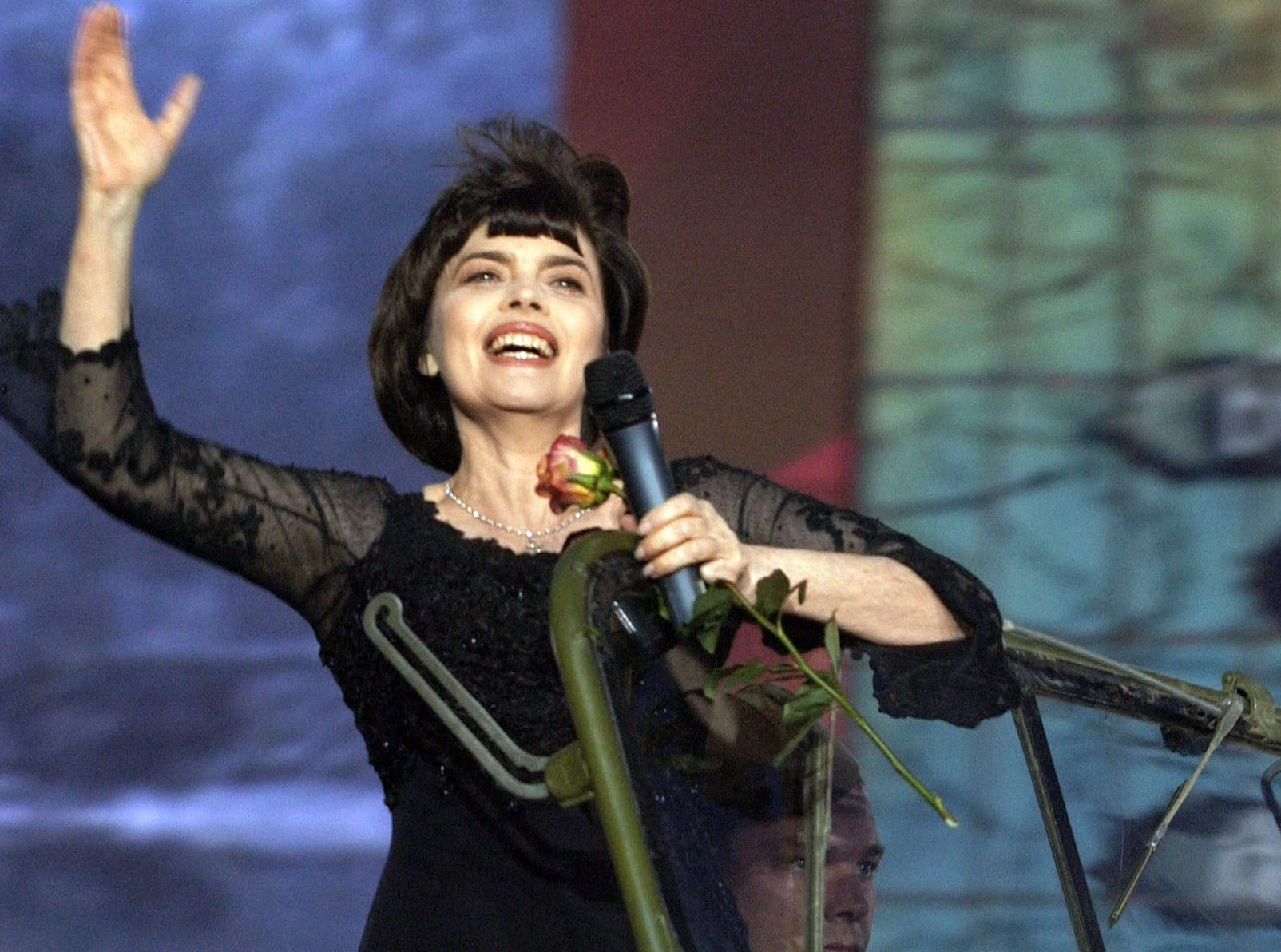 RED SQUARE, MOSCOW. Performance by French singer Mireille Mathieu at a re-enactment commemorating the sixtieth anniversary of victory in World War II.